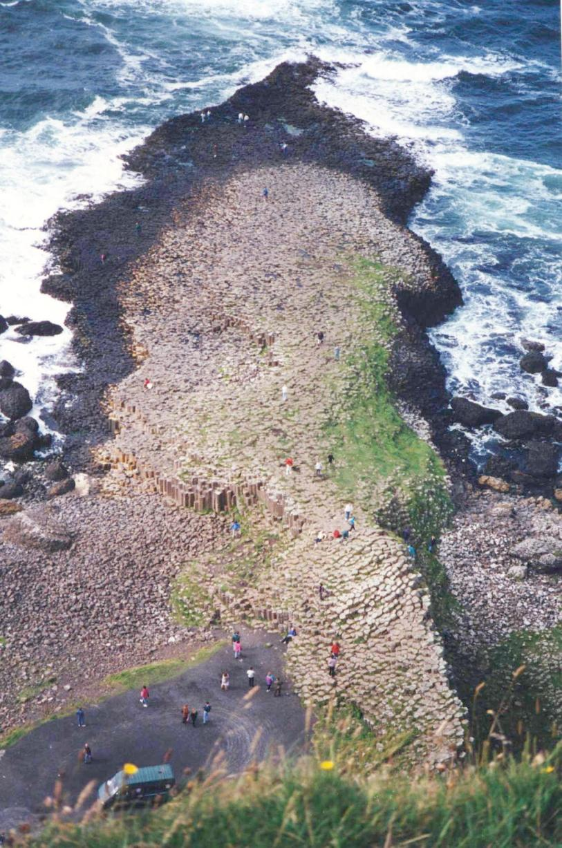 Giant's Causeway, Co. Antrim